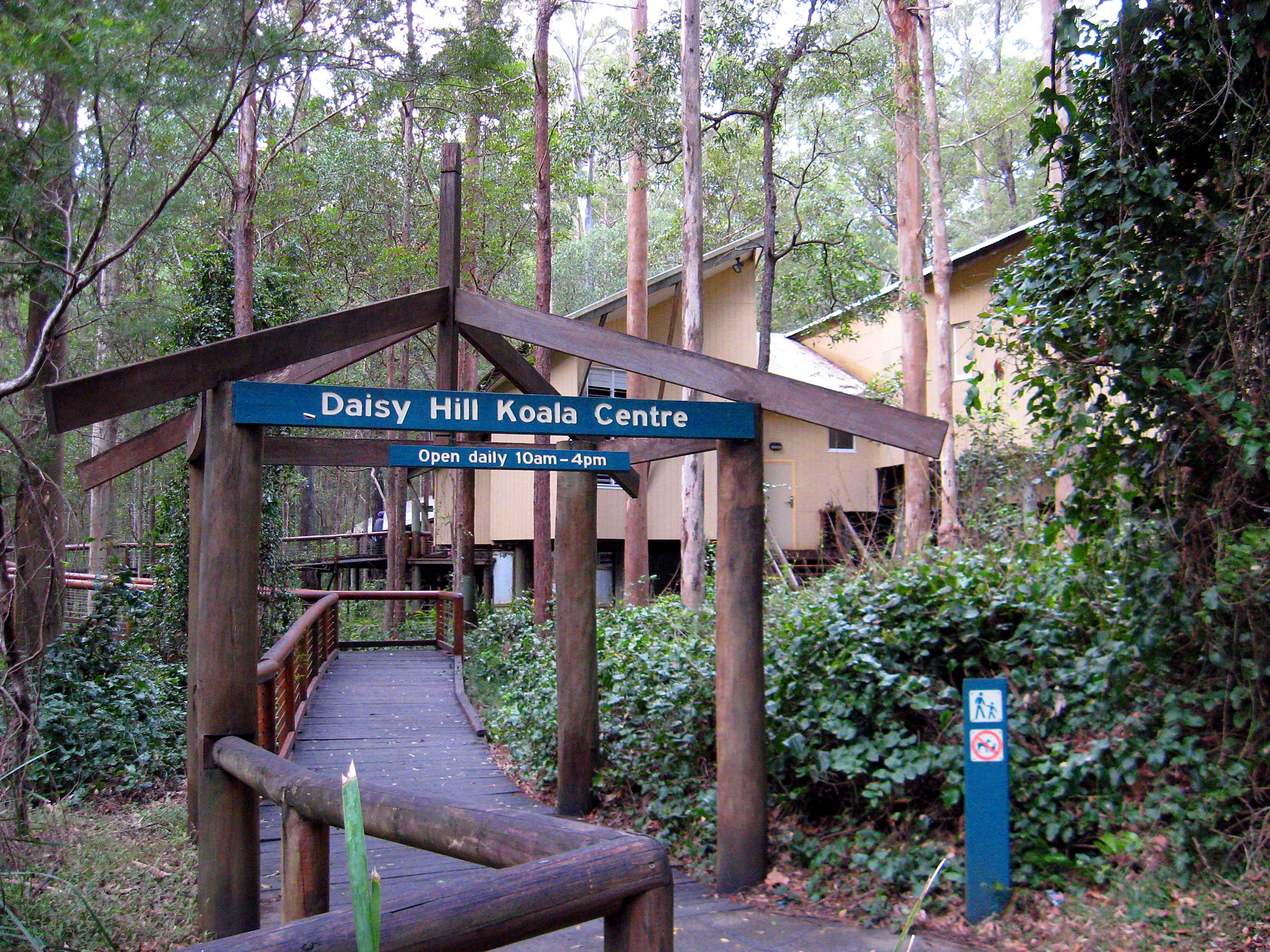 Daisy Hill Koala Centre. A purpose-built koala education centre which houses a large outdoor koala viewing enclosure and many interactive displays.